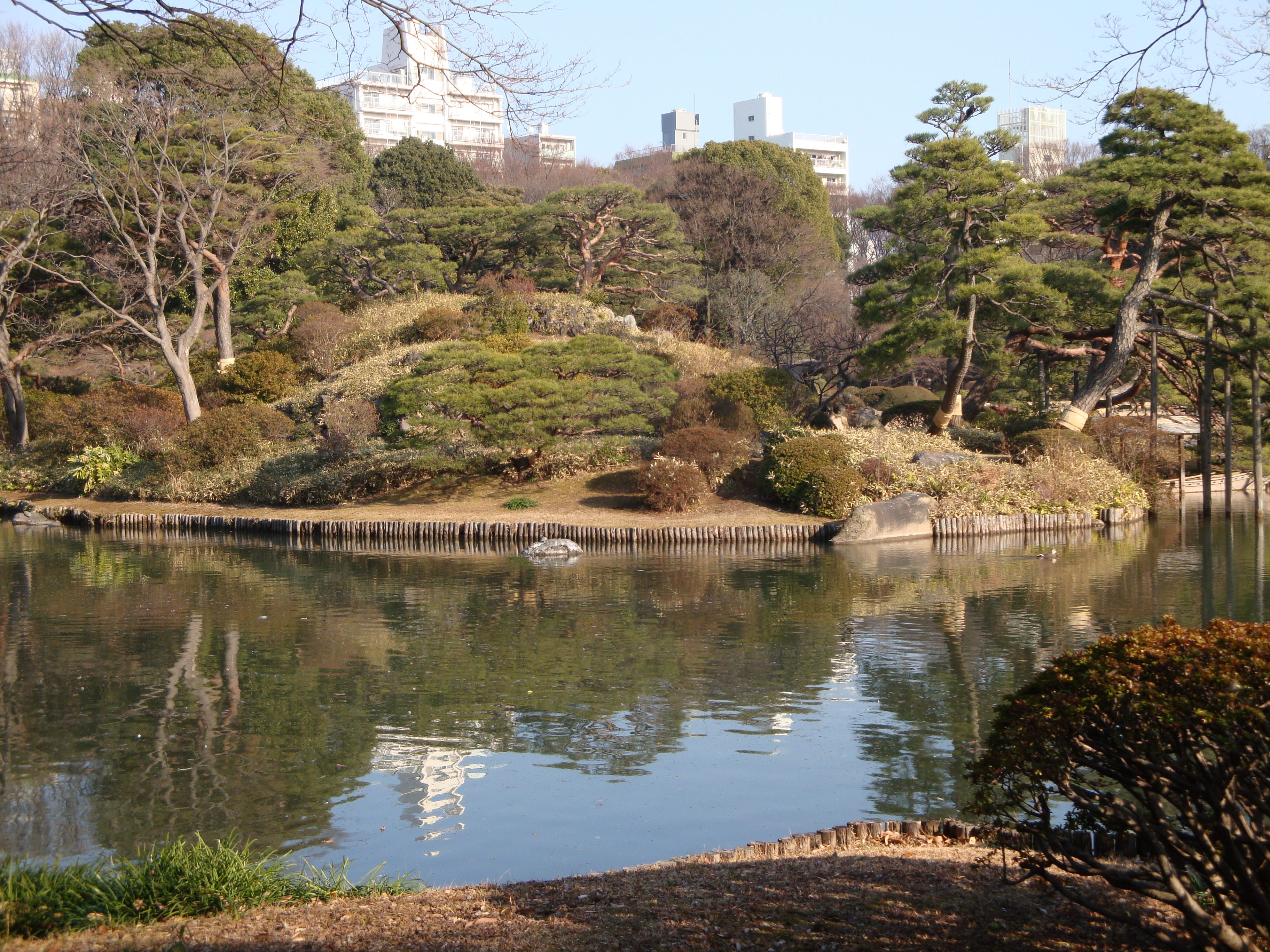 Naka-no-shima island in Rikugien